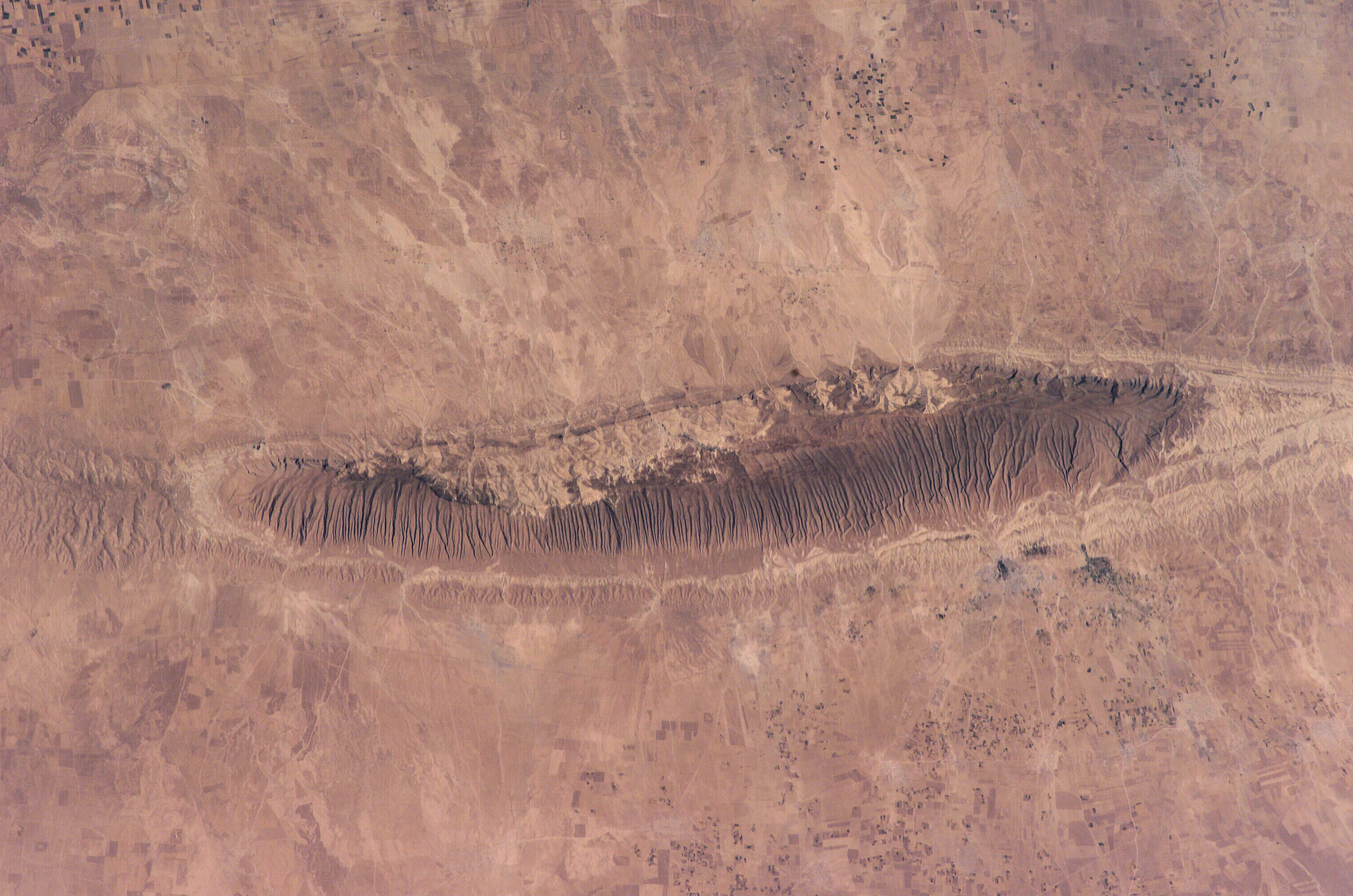 Sinjar Mountains from orbit